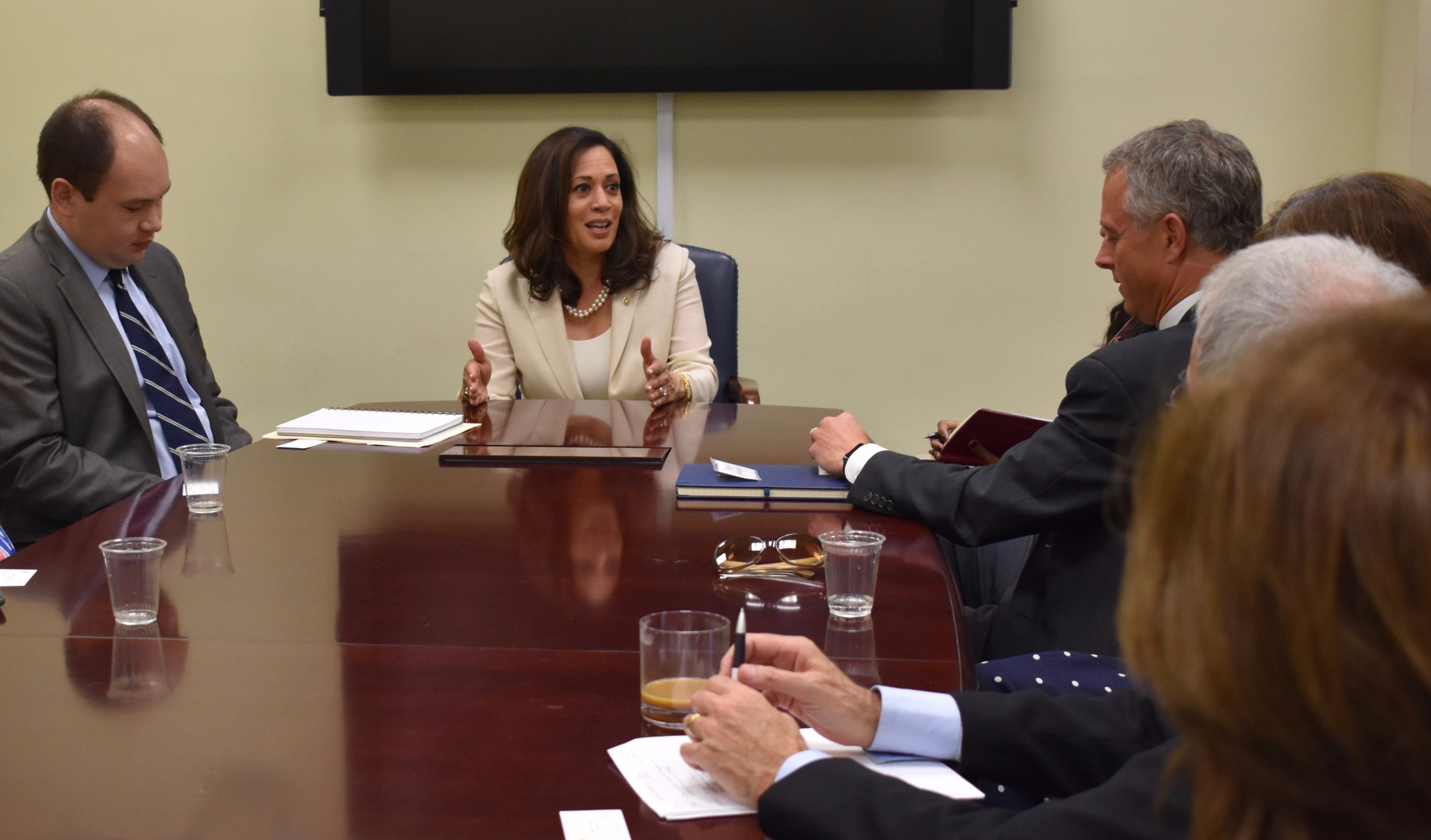 These are challenging times to be sure, but I left my meeting with @LCVoters yesterday heartened.